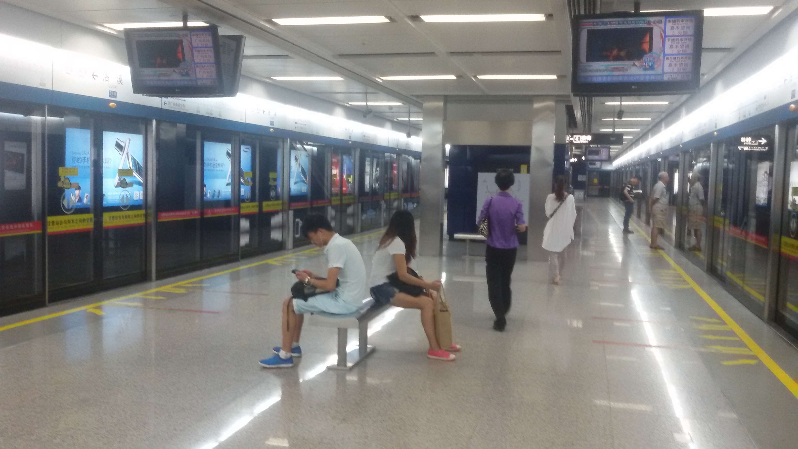 Station Platform for Luoxi Station in Guangzhou Metro. 粵語: 廣州地鐵，洛溪站嘅站台。